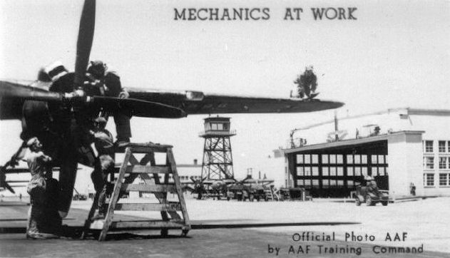 Mechanics at work, Dodge City AAF, Kansas